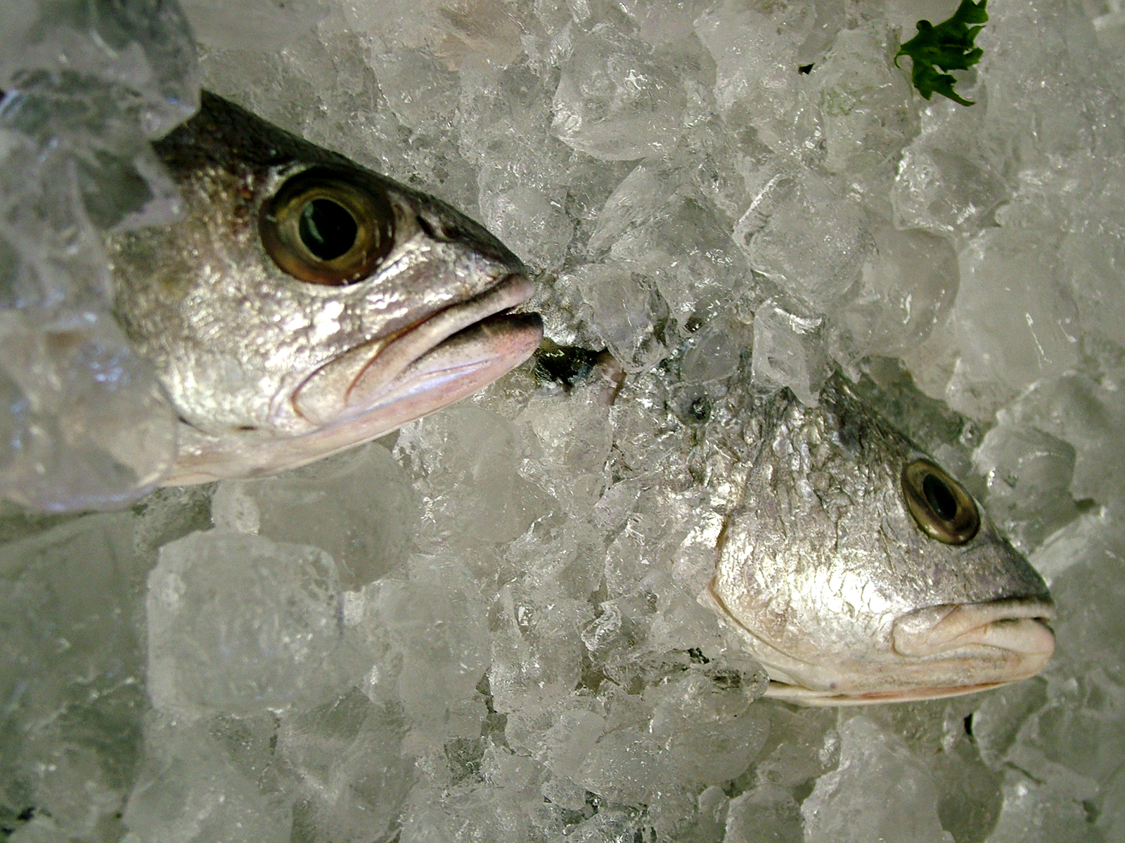 Fish Packed in Ice